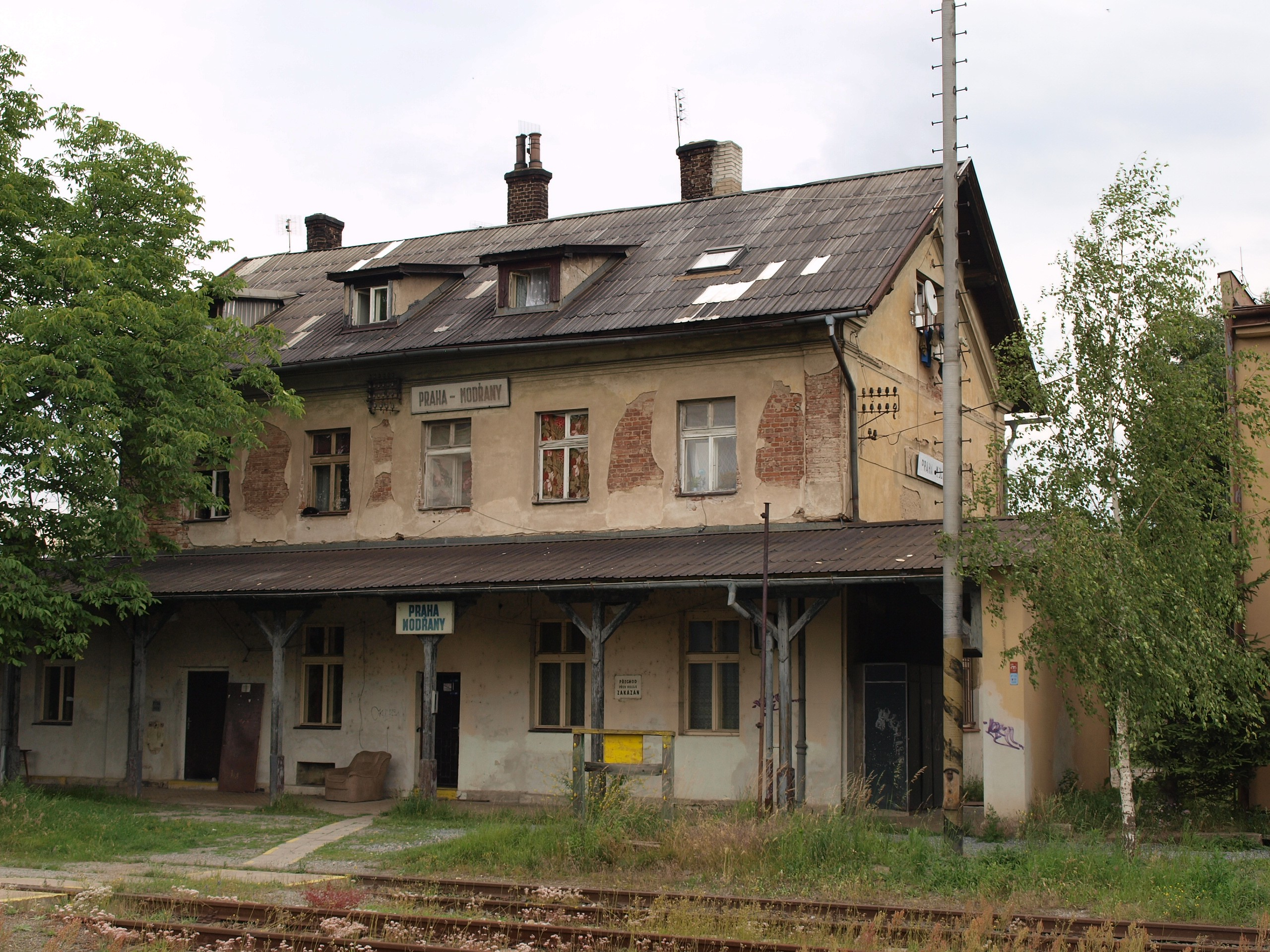 Praha-Modřany train station